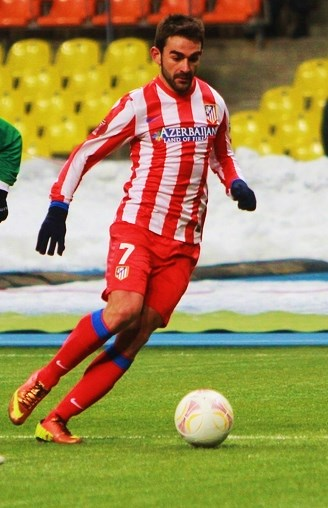 Adrián López Álvarez